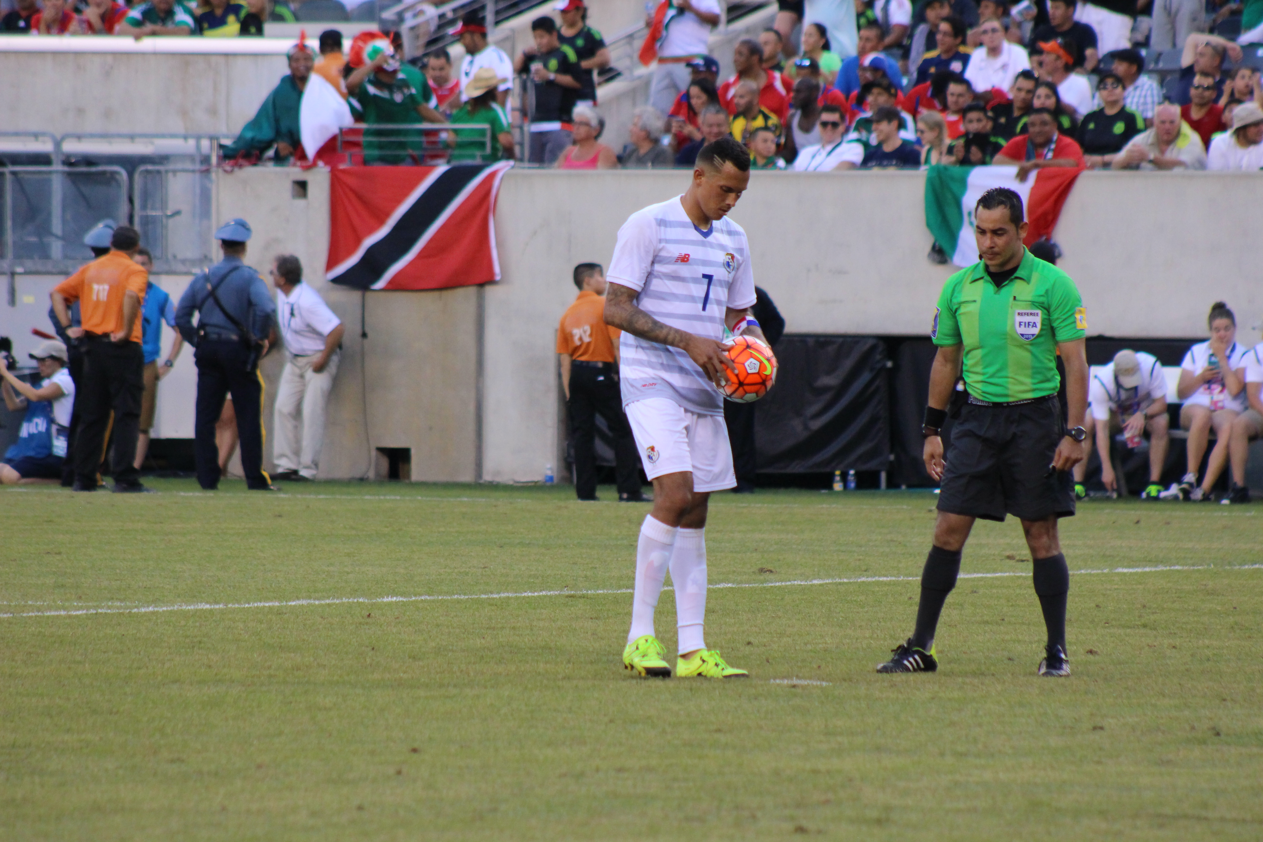 Blas Pérez